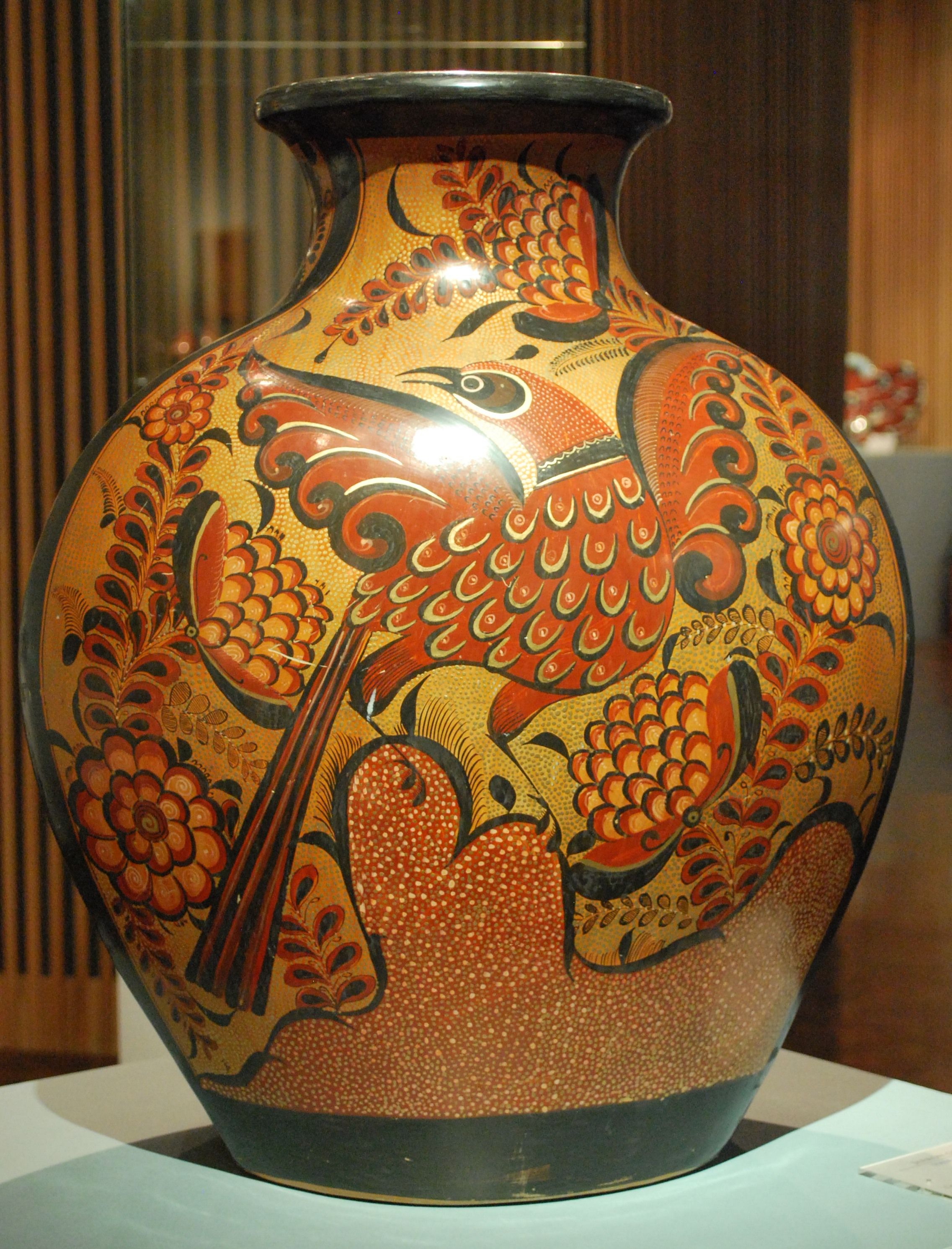 Large burnished ceramic jar with eagle from Jalisco on display at the Museum of Artes Populares in Mexico City